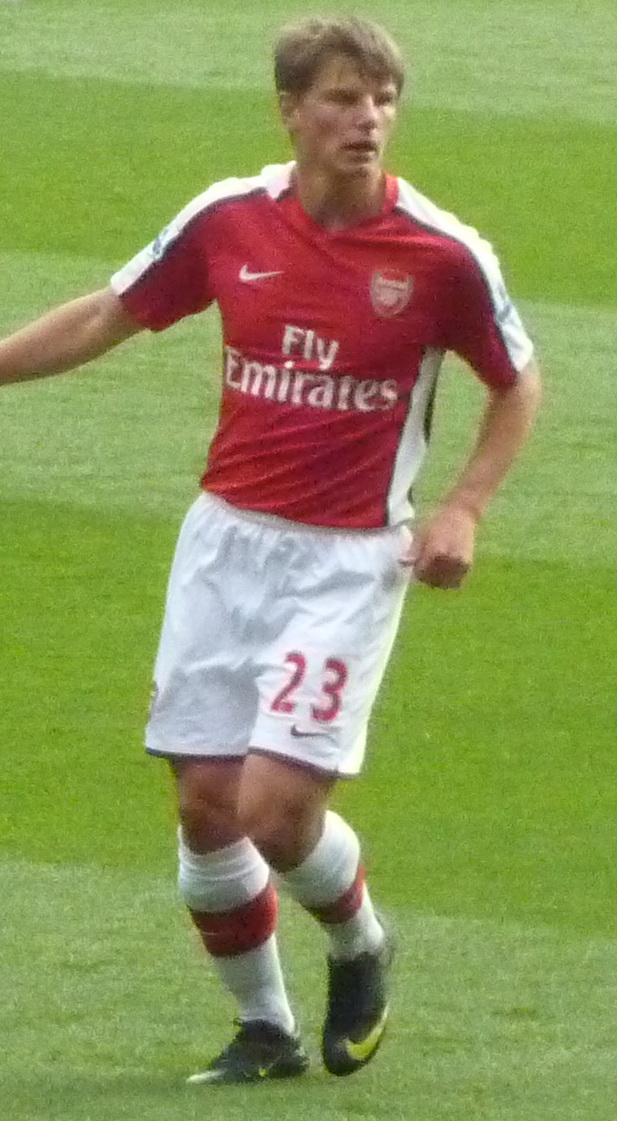 Andrei Arshavin